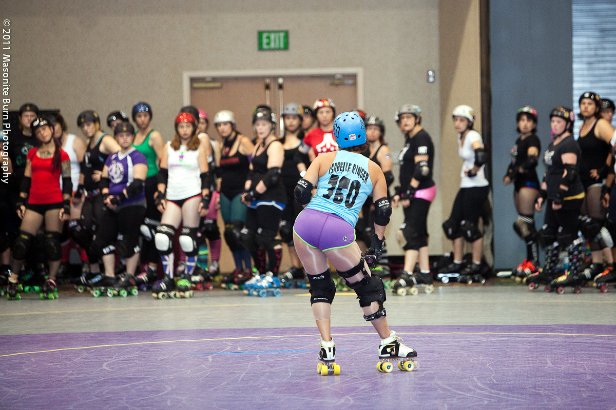 Isabelle Ringer of the San Diego Derby Dolls delivers a class at the 2011 Rollercon.